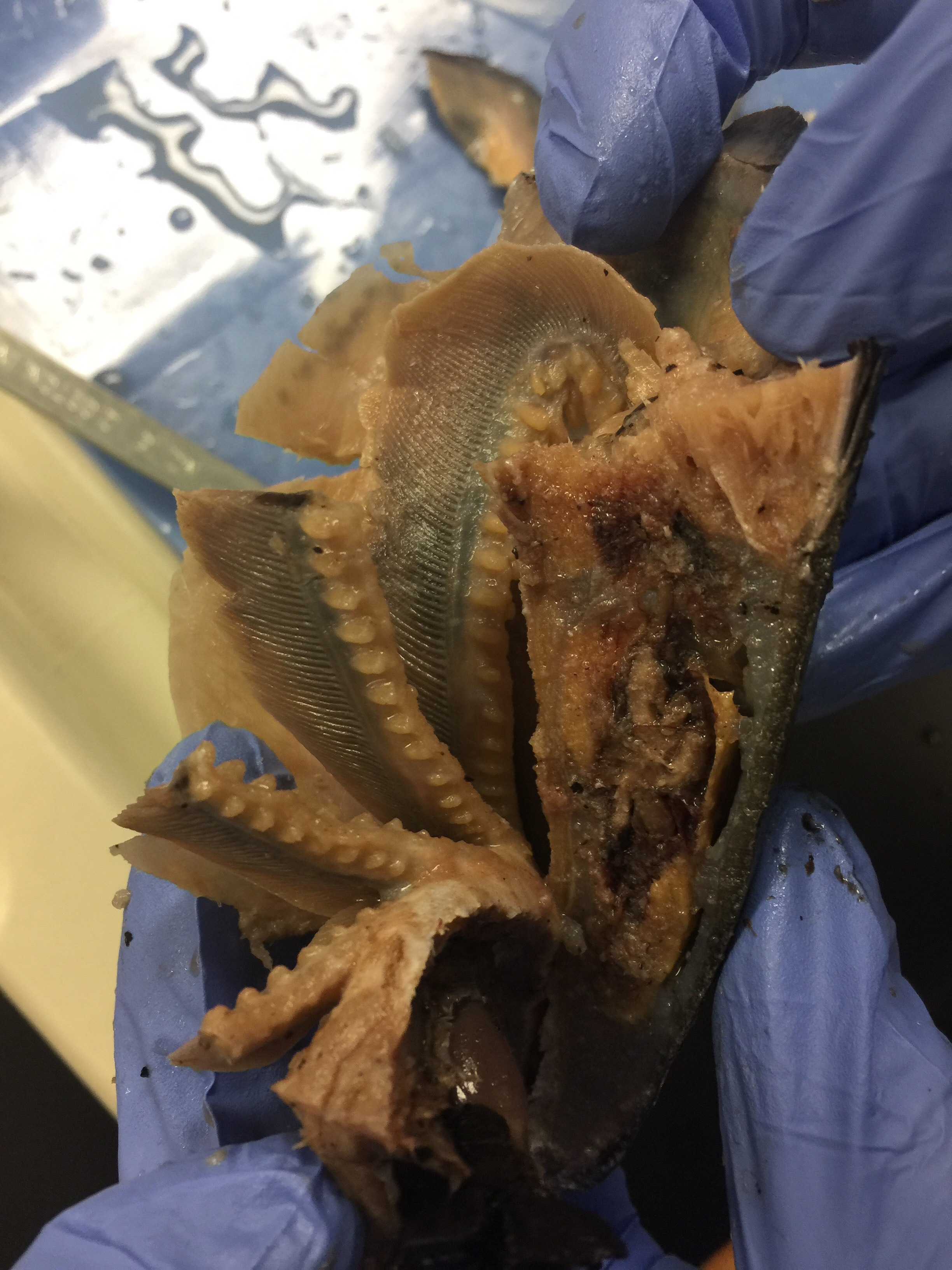 The gill rakers of the Amia Calva are short with blunt processes and with a small space in between each of them.